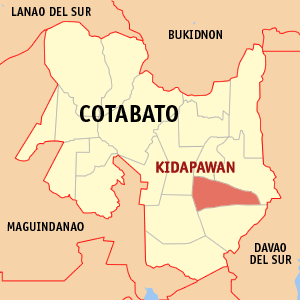 Map of the Cotabato showing the location of Kidapawan City